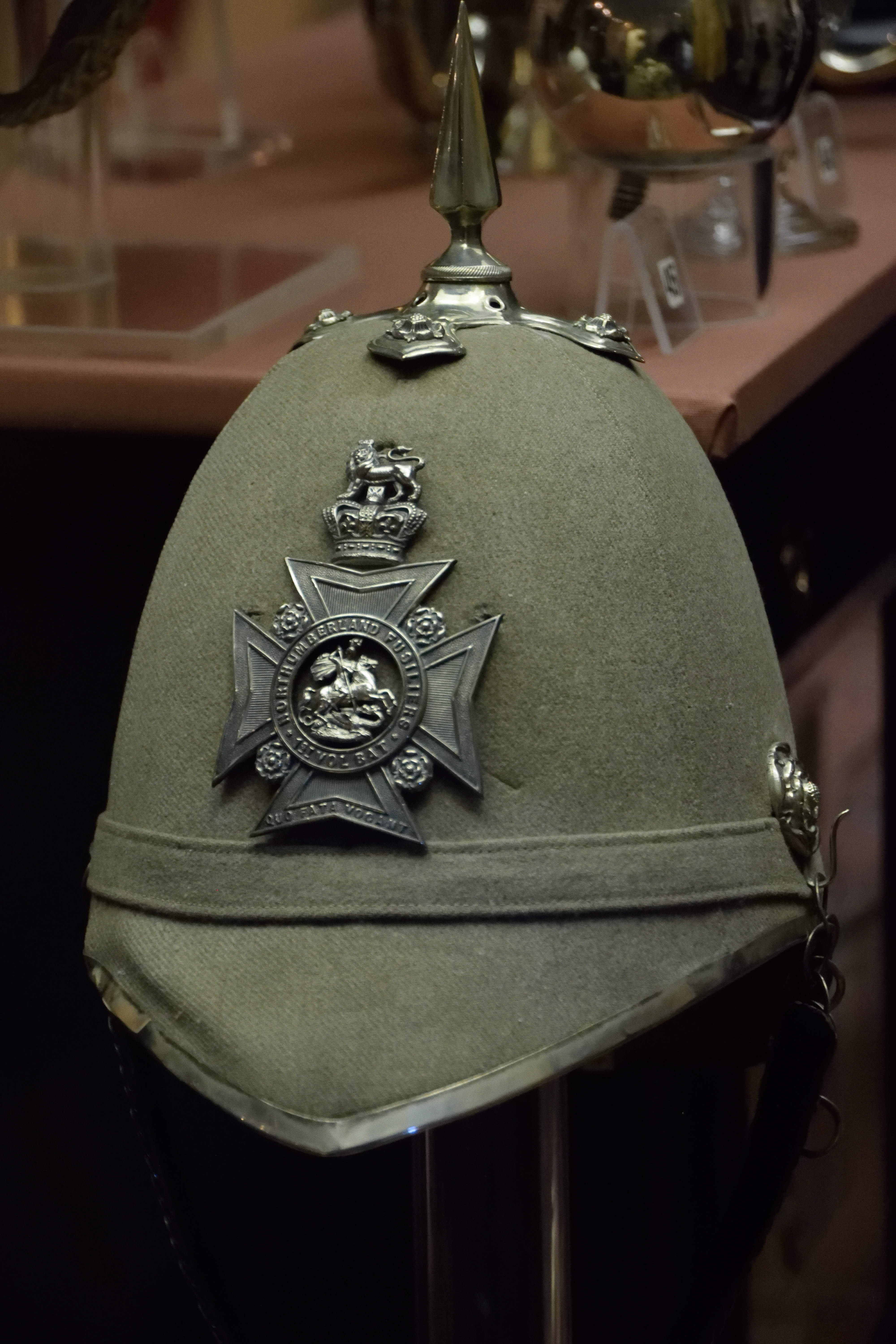 Service helmet of the 1st Volunteer Battalion Northumberland Fusiliers 1883-1893. From the Royal Northumberland Fusiliers museum, Alnwick Castle